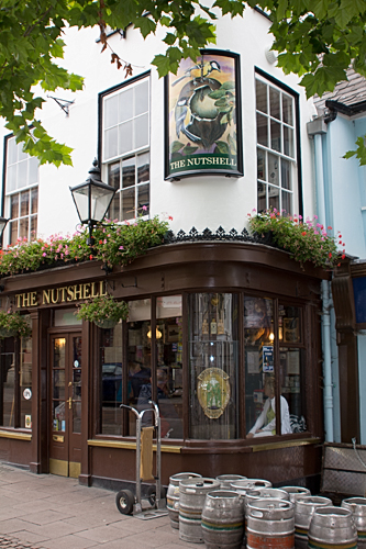 Smallest pub in the UK